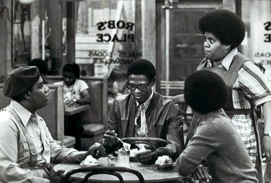 Partial cast photo from the television program What's Happening. Seated, from left Fred Berry (Rerun), Ernest Lee Thomas (Raj), Haywood Nelson (back to camera - Dwayne Wayne). Standing is Shirley Hemphill (Shirley), the waitress at the kids' favorite food spot.